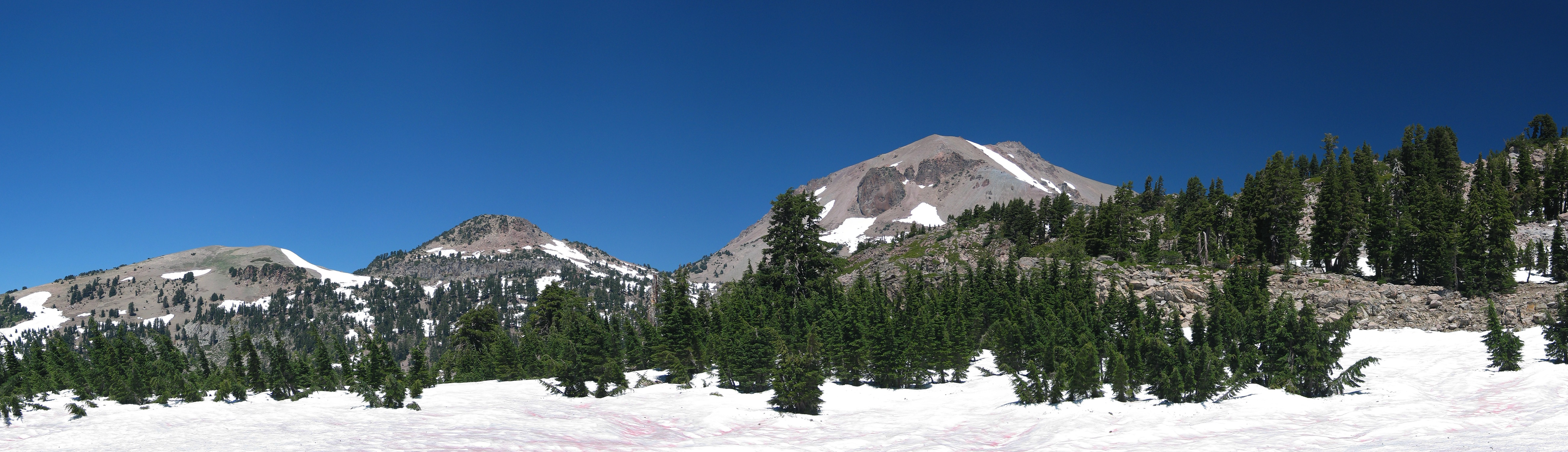 Snowy meadow in Lassen Volcanic NP. Red hue is due to algae growth on the snow.